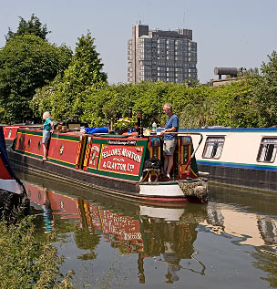 Grand Union Canal Aylesbury Author Robert Stainforth